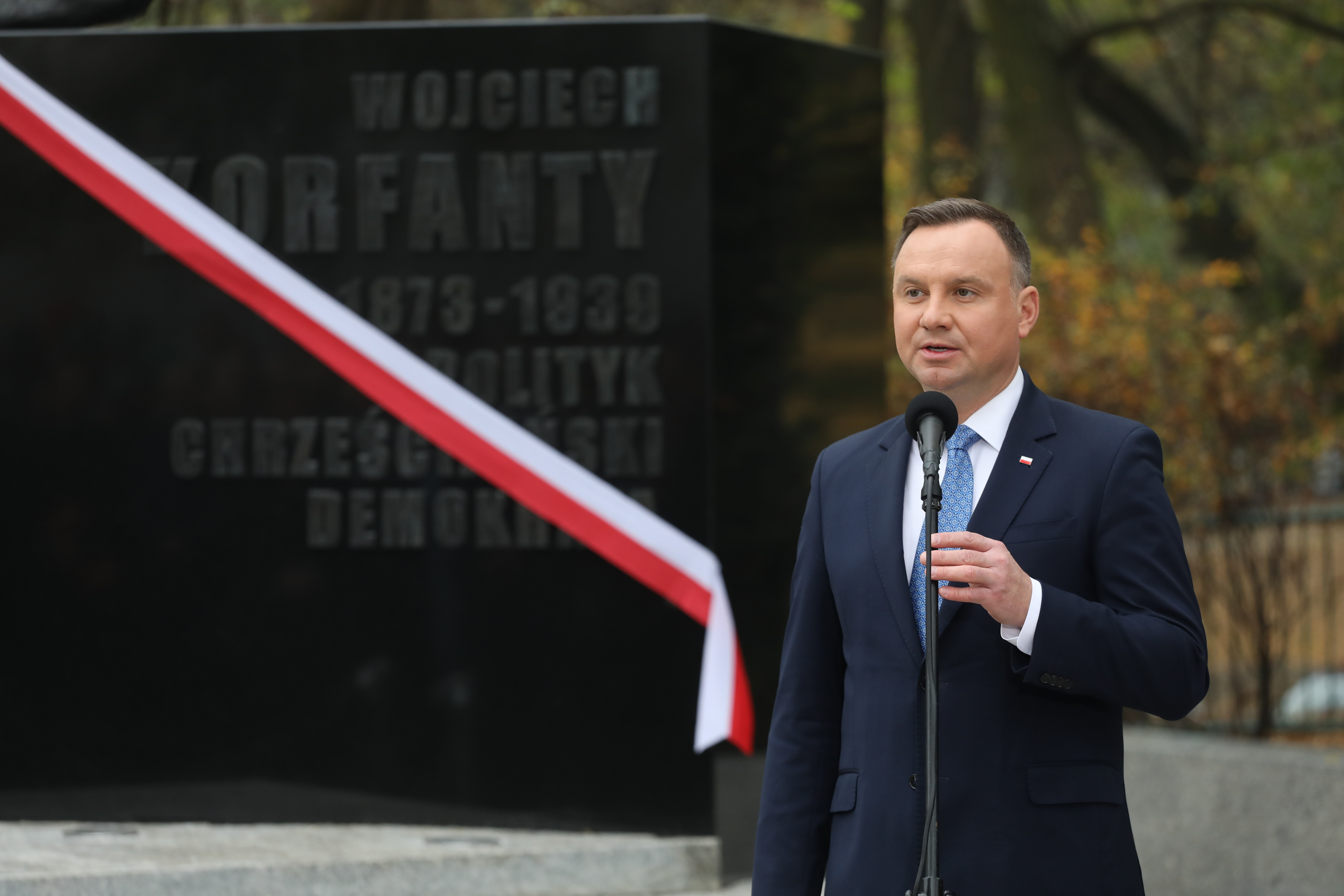 President of the Republic of Poland Andrzej Duda. Unveiling of the monument to Wojciech Korfanty in Warsaw.